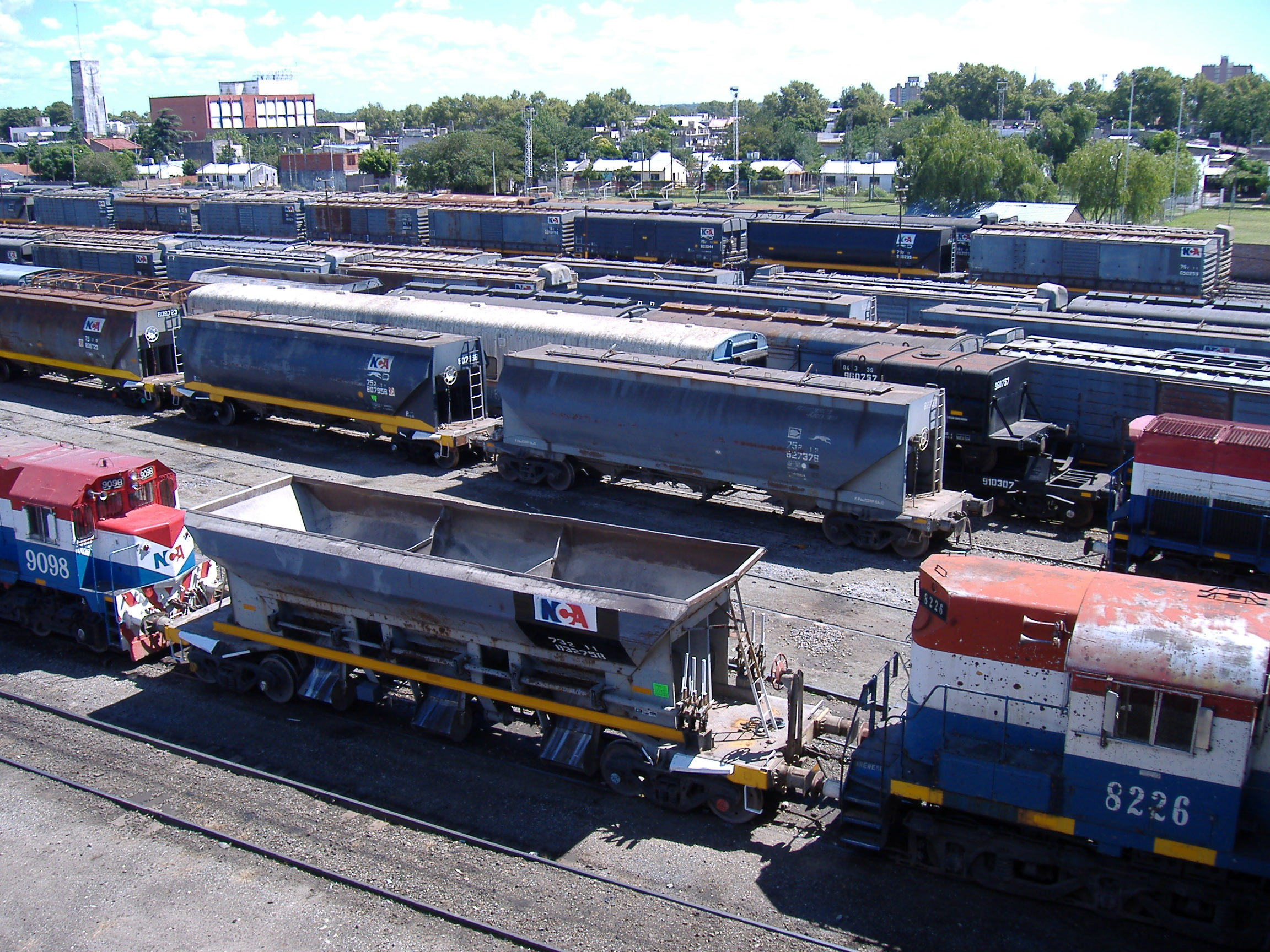 The Patio Parada, base of operations of the railway system in Rosario, Argentina, now managed by Nuevo Central Argentino railway company. The Patio is located on the Cruce Alberdi (Alberdi Cross, the confluence of Alberdi Avenue, on the north-east part of the city, with Salta St. and Bordabehere St.). This view is from the elevated Viaducto Avellaneda. This picture was taken by Pablo D. Flores on 4 March 2006.